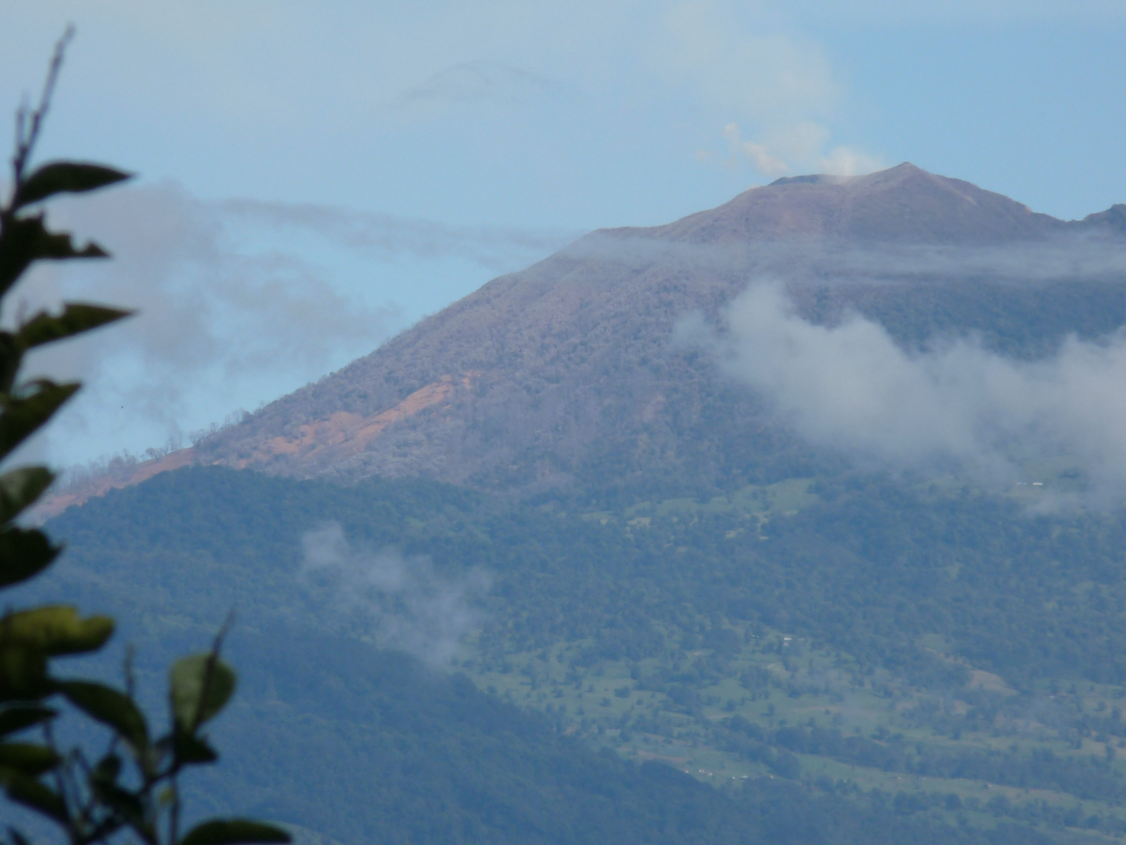 Damaged Area near Turrialba Volcano, Costa Rica.